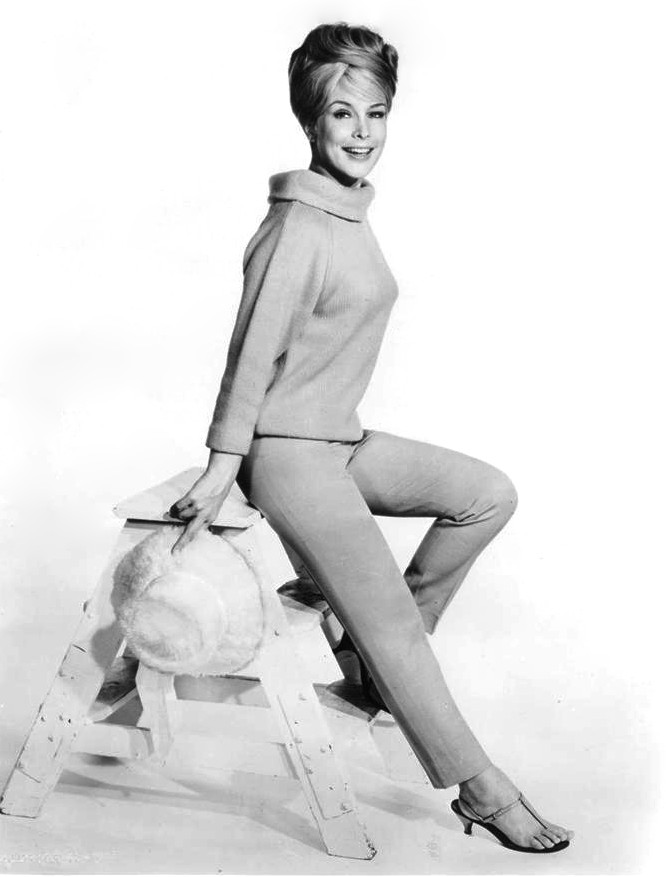 Publicity photo of Barbara Eden from the television program Route 66.